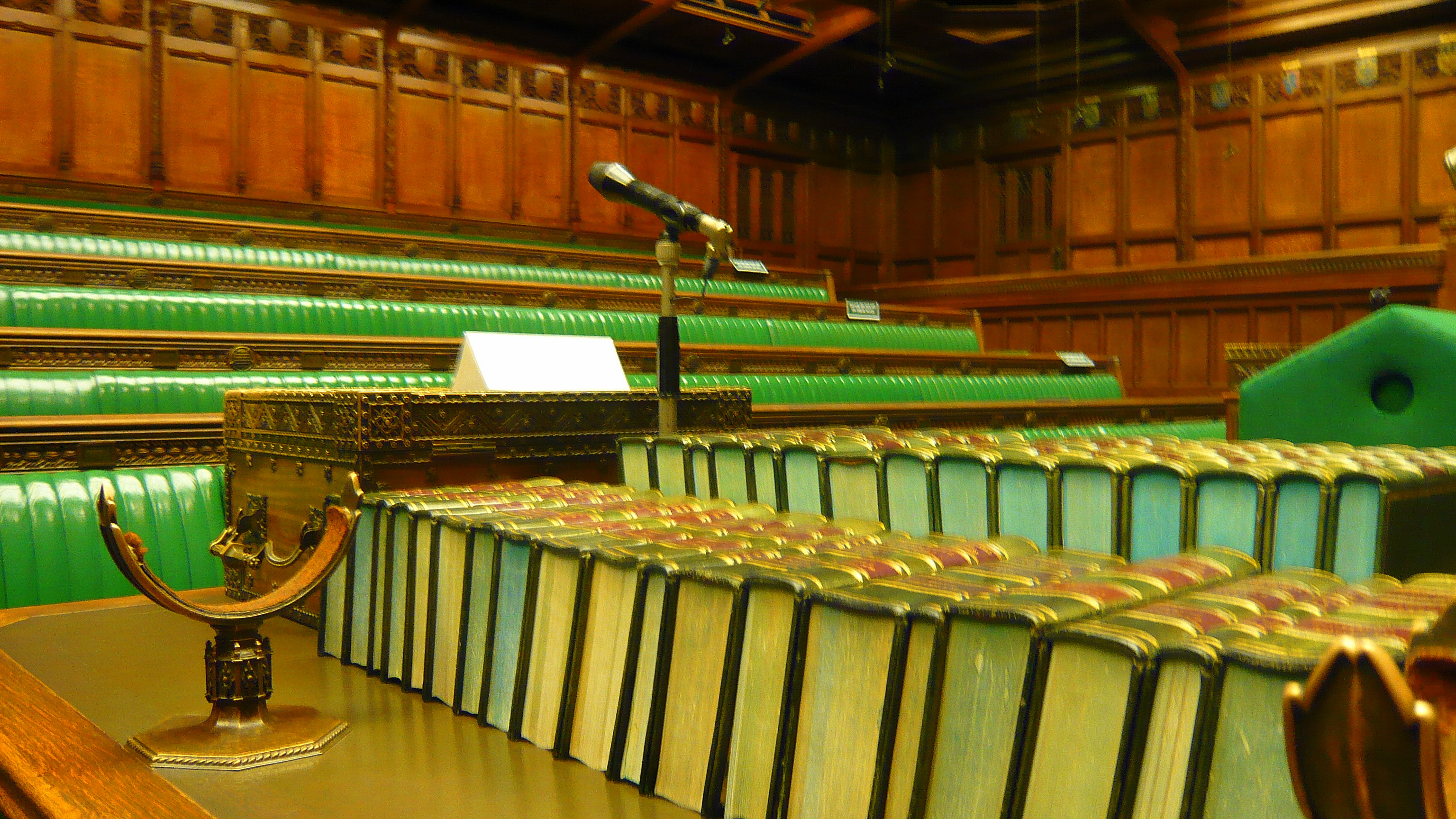 Close-up shot of the clerks' table in the chamber of the House of Commons (UK), showing the despatch box on the government side.